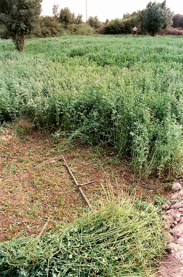 Scythe in a lucern field, in Aït Iazza, near Taroudant (Maroc).